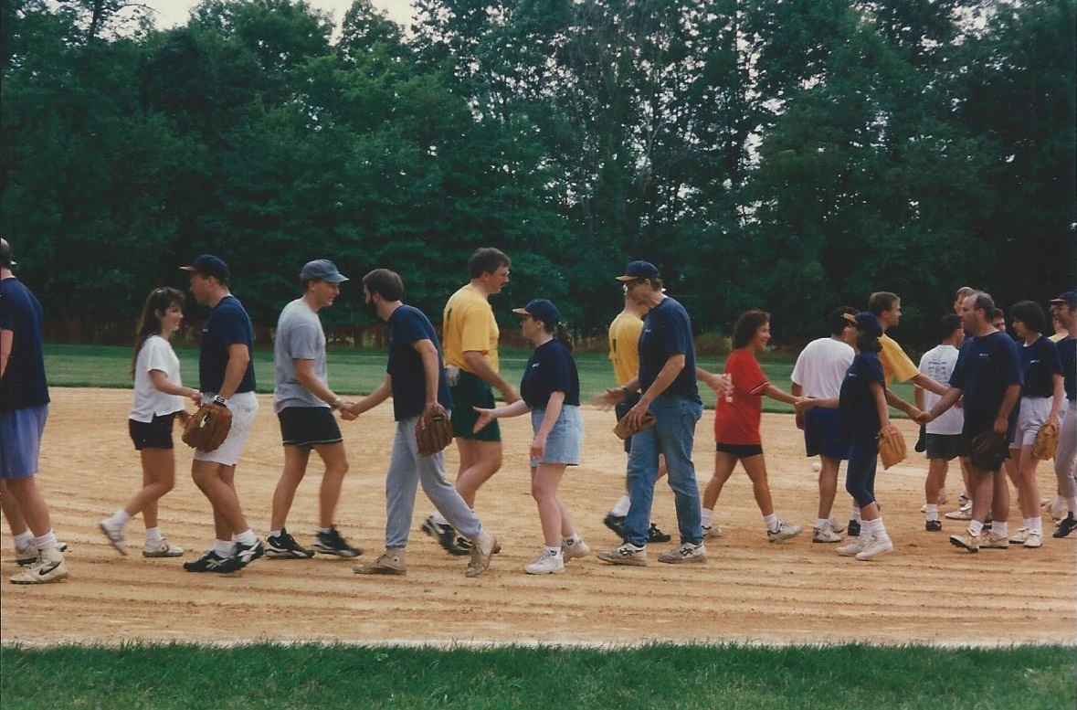 Scene at conclusion of championship game of the co-ed Exxon Intramural Softball League on Field 2 at the Exxon Research and Engineering campus in Florham Park, New Jersey in August 1997. The victorious Defectors (dark blue shirts, comprised of players from HP (80%), SCO, and Novell, who worked in a leased office building on the site) shake hands with SU&P (comprised mostly of Equipment Engineering Division personnel and alumni).